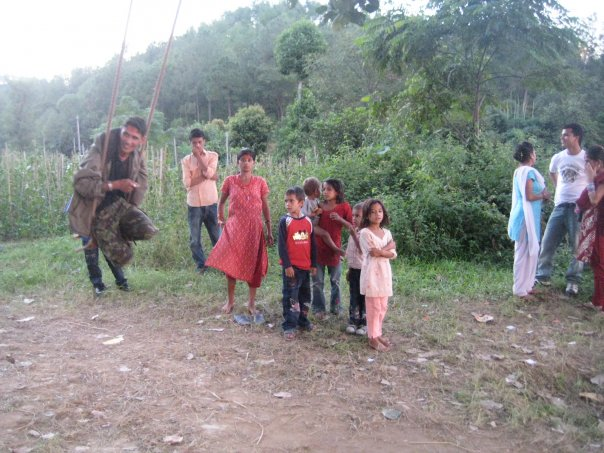 a nepali boy enjoying swing (ping) during dashain